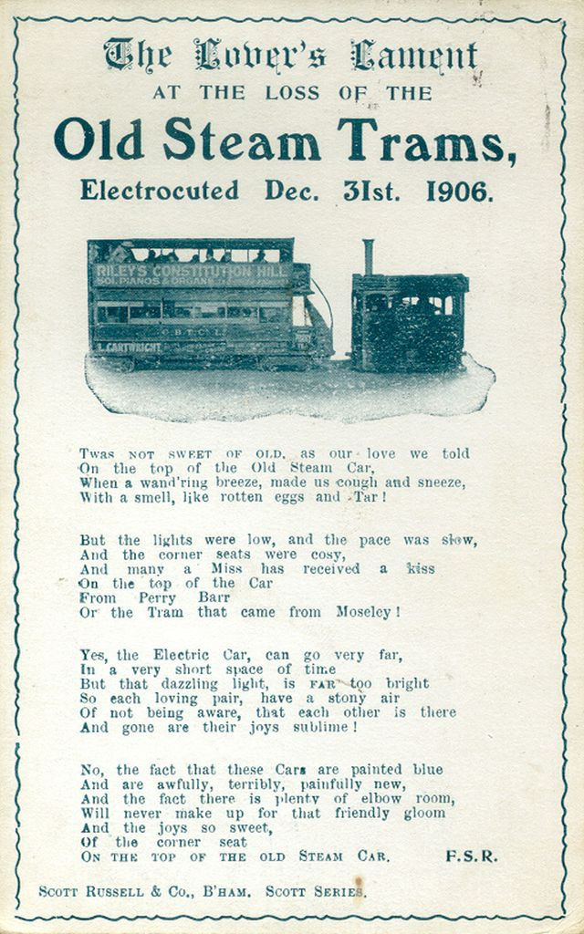 Postcard with a poem about end of the use of Steam Trams in Birmingham, England. The Lover's Lament AT THE LOSS OF THE Old Steam Trams, Electrocuted Dec. 31st. 1906. TWAS NOT SWEET OF OLD. as our love we told On the top of the Old Steam Car, When a wand'ring breeze, made us cough and sneeze, With a smell, like rotten eggs and Tar! But the lights were low, and the pace was slow, And the corner seats were cosy, And many a Miss has received a kiss On the top of the Car From Perry Barr Or the Tram that came from Moseley! Yes, the Electric Car, can go very far, In a very short space of time But that dazzling light, is FAR-too bright So each loving pair, have a stony air Of not being aware, that each other is there And gone are their joys sublime! No, the fact that these Cars are painted blue And are awfully, terribly, painfully new, And the fact there is plenty of elbow room, Will never make up for that friendly gloom And the joys so sweet, Of the corner seat ON THE OF THE OLD STEAM CAR. F.S. R SCOTT RUSSELL & Co., B'HAM. SCOTT SERIES